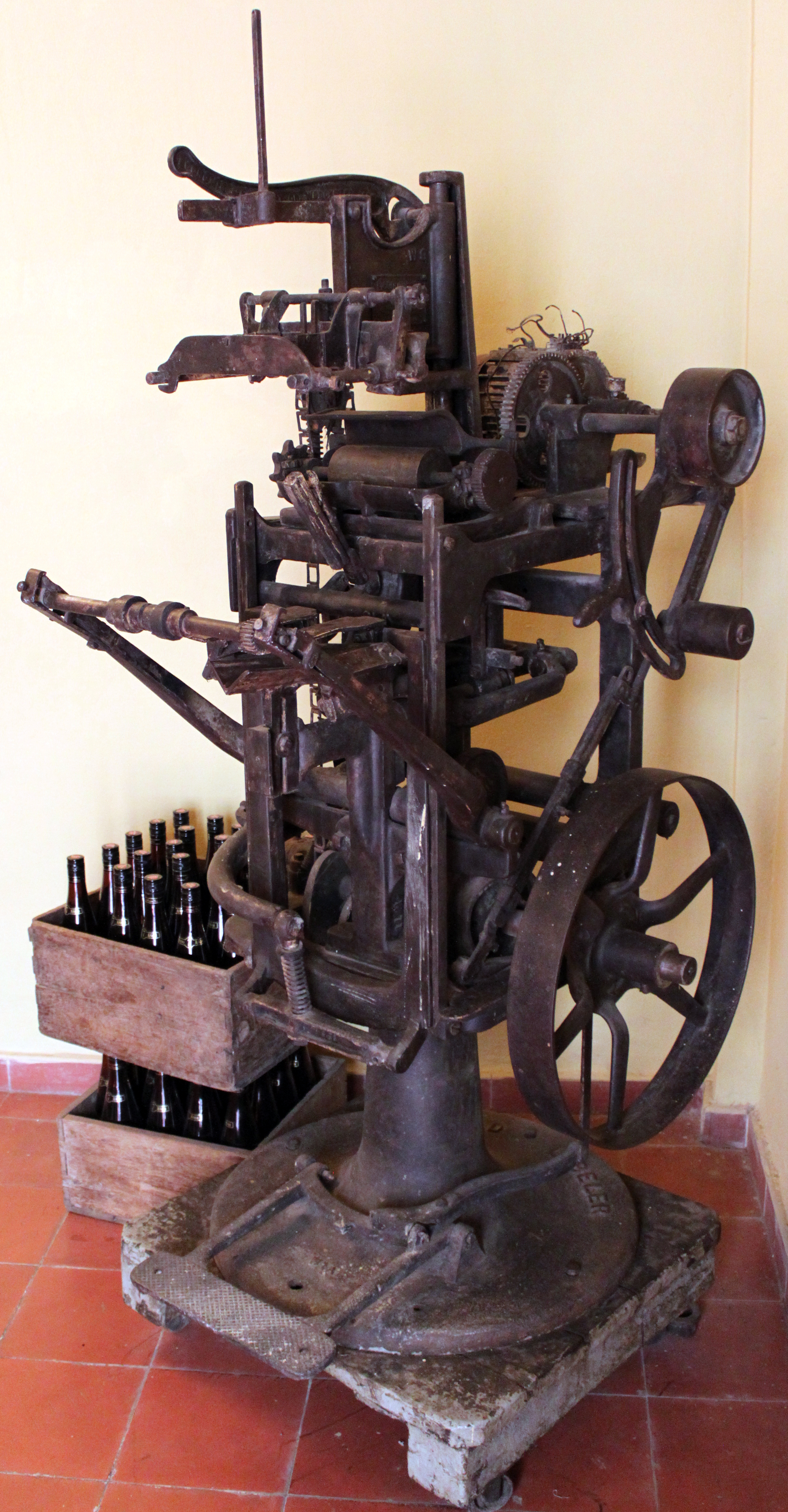 Rum Museum, Havana, Cuba